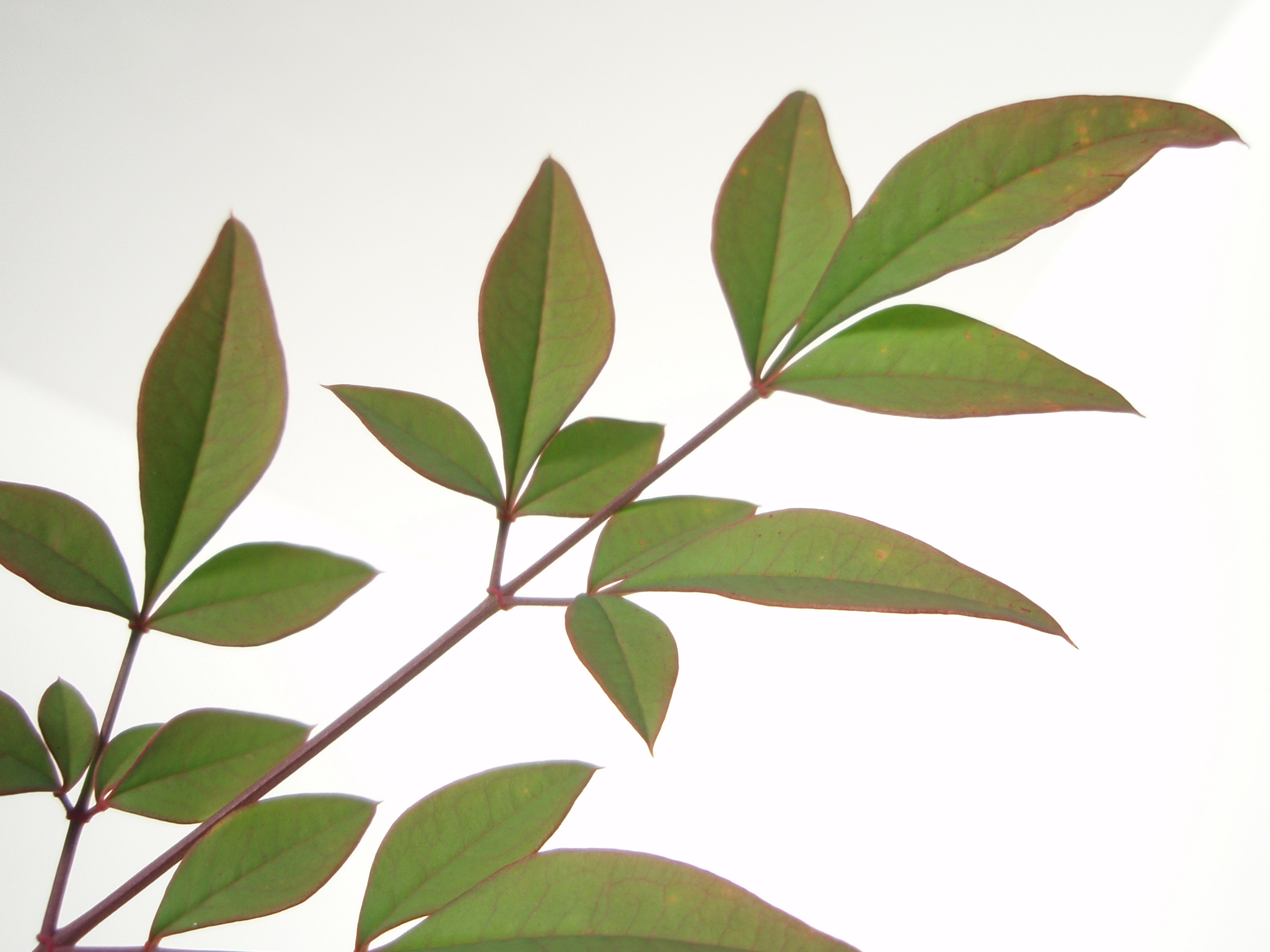 Nandina domestica